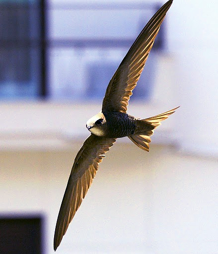 A Pallid Swift flying in Greece.